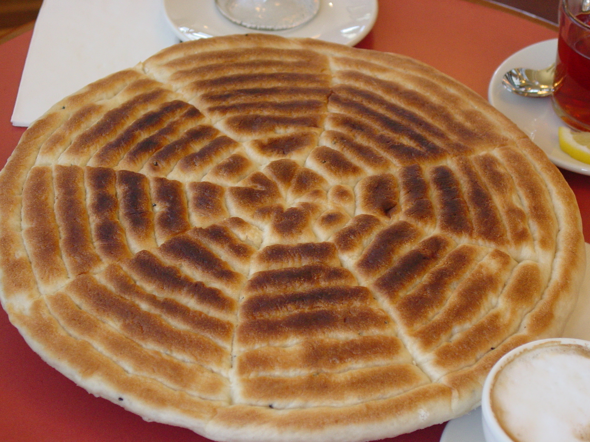 Himbasha a traditional Eritrean celebration bread.